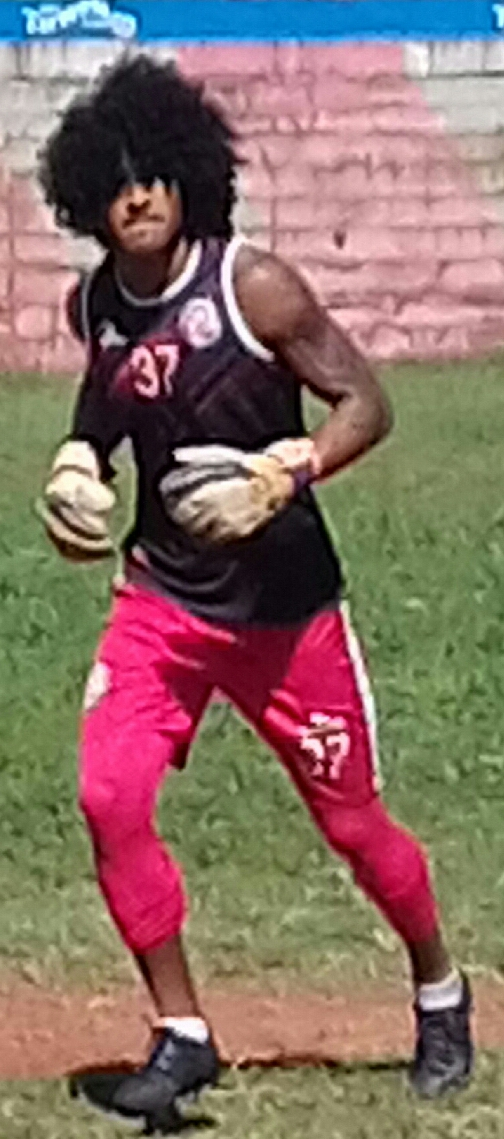 Jogador brasileiro Karlos Aguia otro